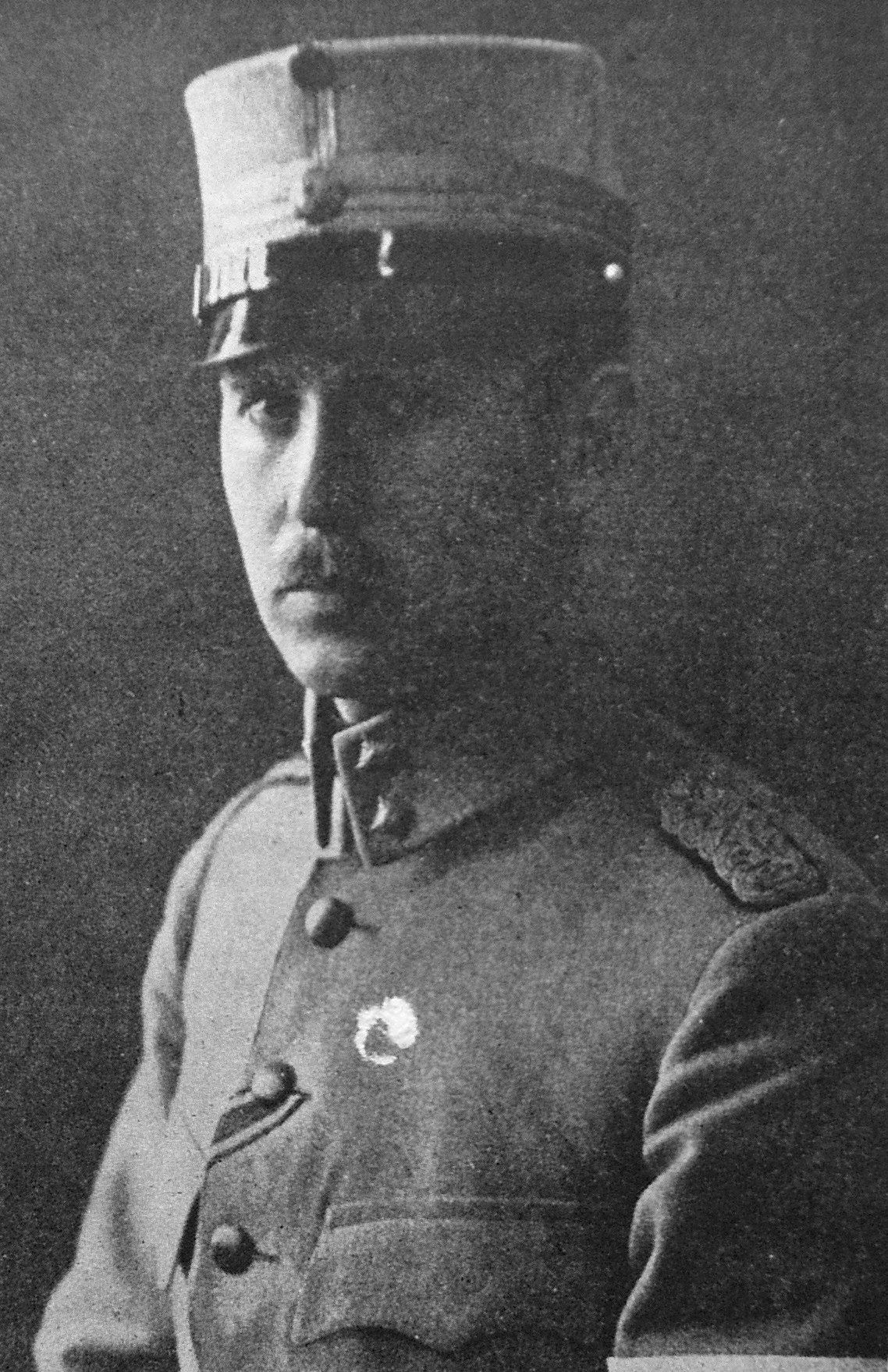 Picture of Archibald Douglas, Swedish military person